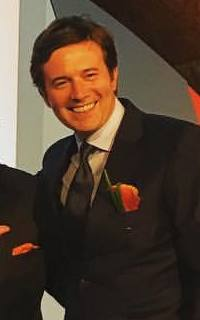 Had a great time at last night's #50forward event celebrating the 50th anniv of the Newhouse School at @SyracuseU. Fun sharing the stage with Bob Costas, Mike Tirico, Jeff Glor, Chris Licht, Scott Koondel. Even more fun to walk around and thank the folk